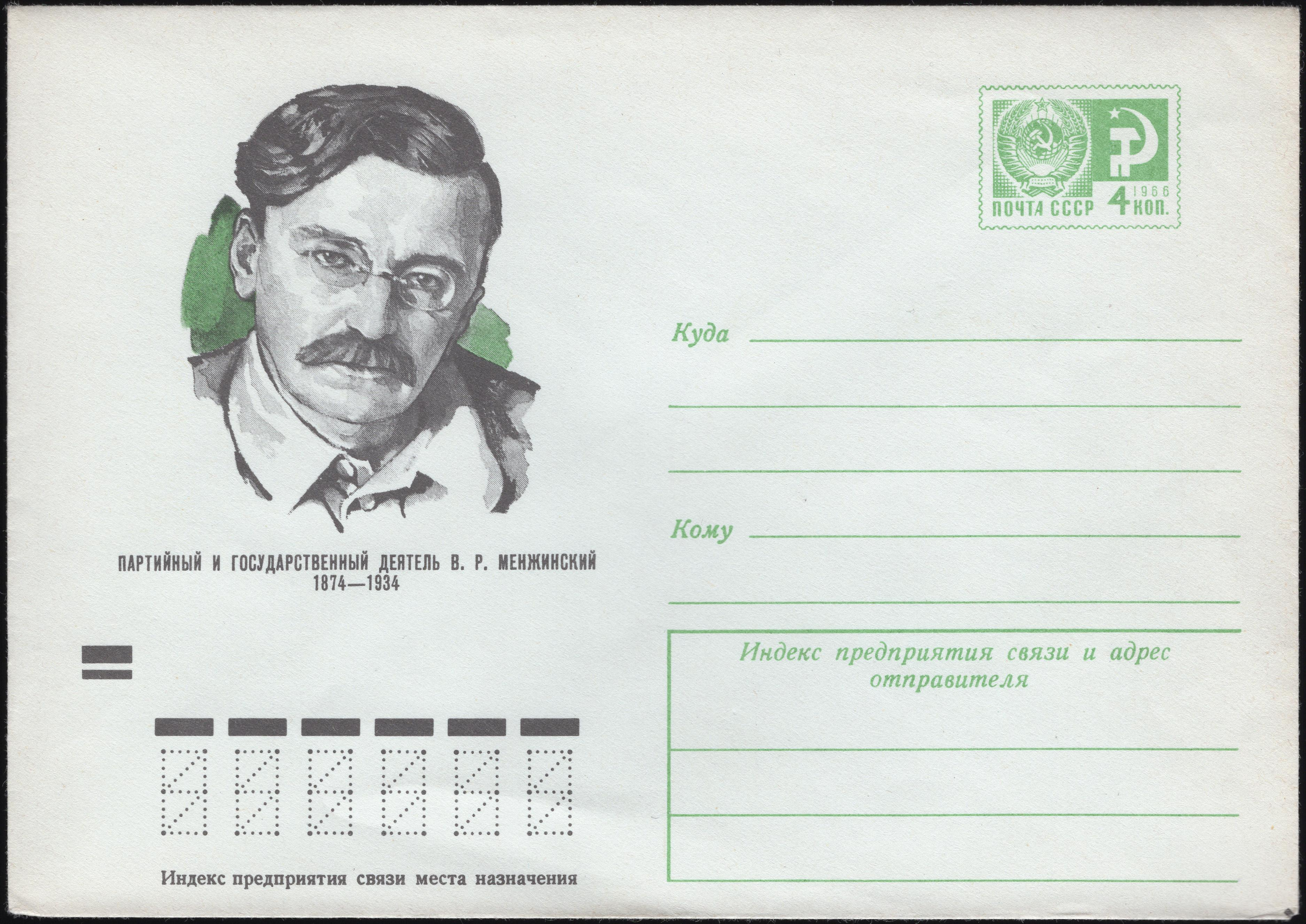 Statesman Vyacheslav Menzhinsky. 1874-1934. Series: Statesmans. Artist Peter Bendel.